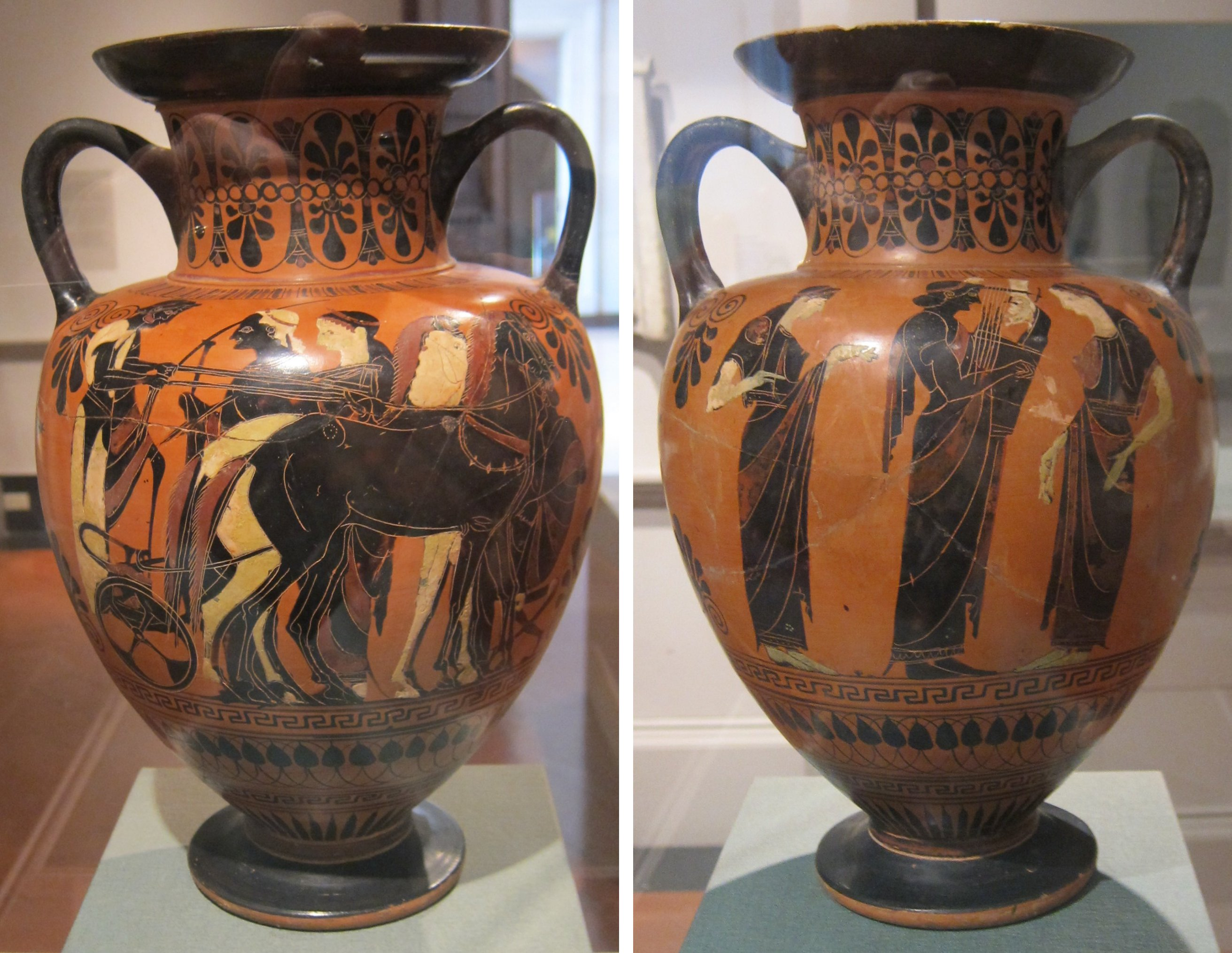 Amphora from Athens by the Dayton Painter, c. 520 BCE, Dayton Art Institute